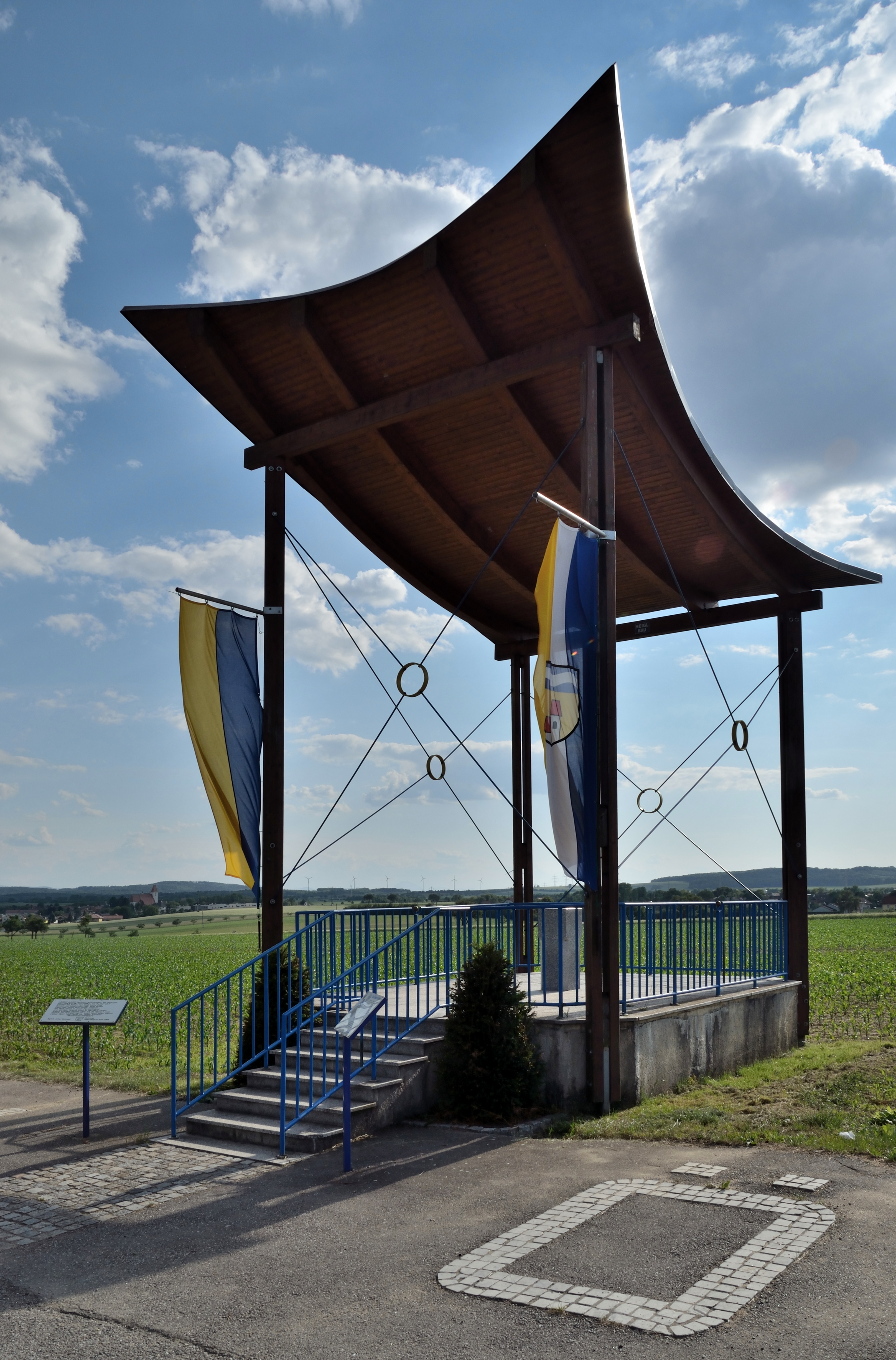 The Max Schubert Warte at Killing, municipality of Kapelln, Lower Austria, marks the geographical center of Lower Austria. In the left background the parish church of Kapelln.